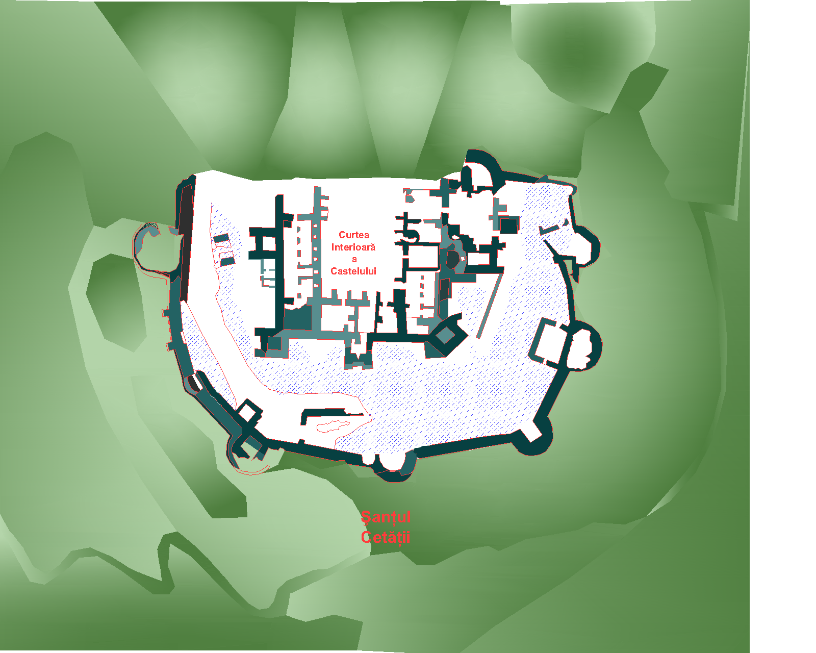 Seat Fortress of Suceava – the fortress plan based on the drawings made by Austriac architect Karl A. Romstorfer in 1901.